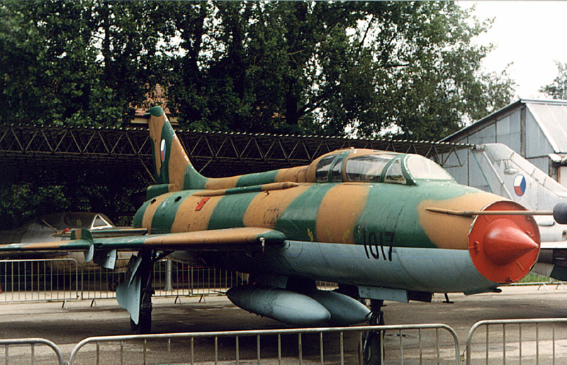 Czech Su-7UMK at Prague Aviation Museum.